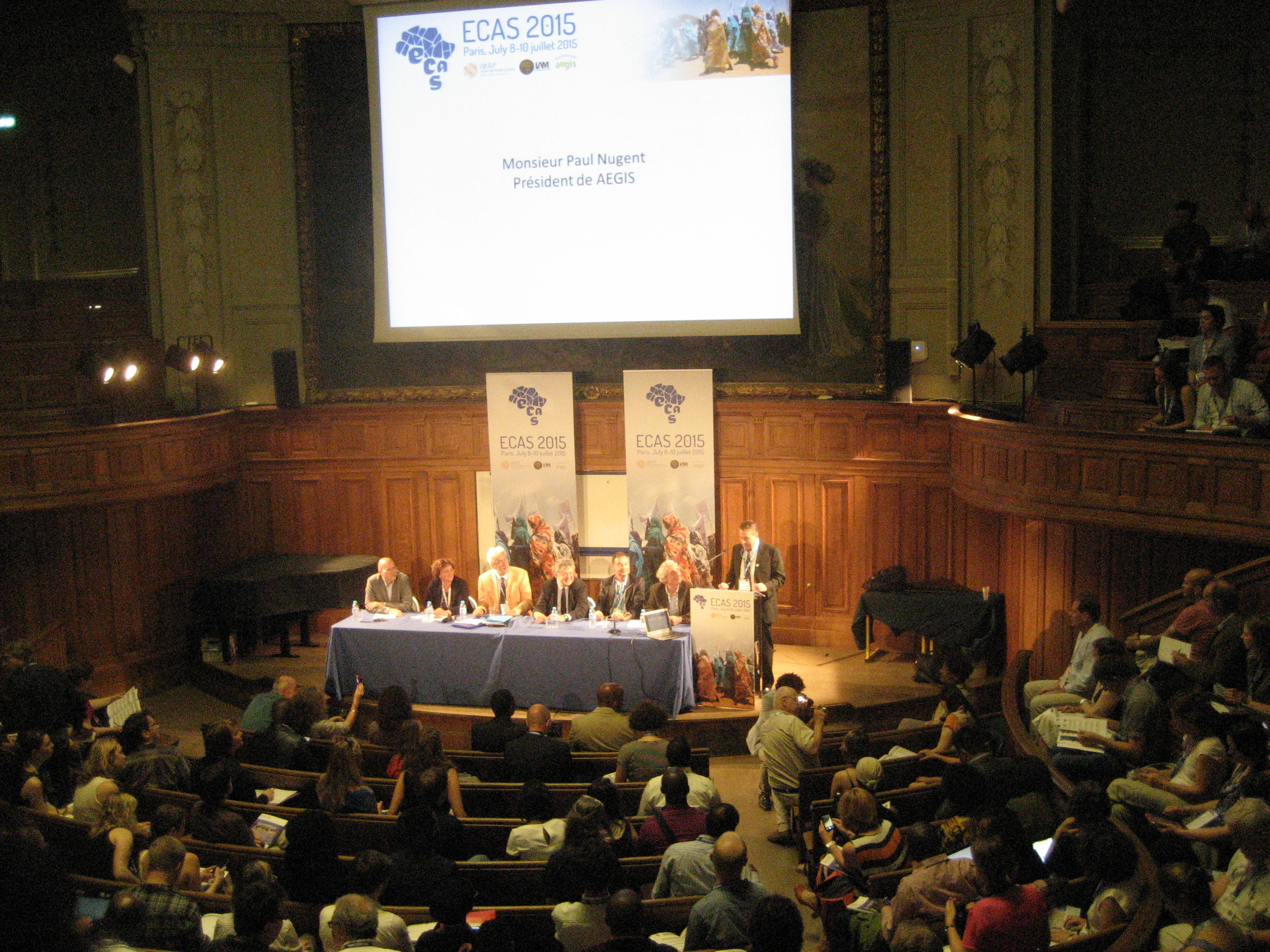 Amphitheatre Richelieu at the Sorbonne University, Paris, during the opening of the 6th European Conference on African Studies (ECAS), 8 July 2015. Speaker: Paul Nugent (University of Edinburgh)